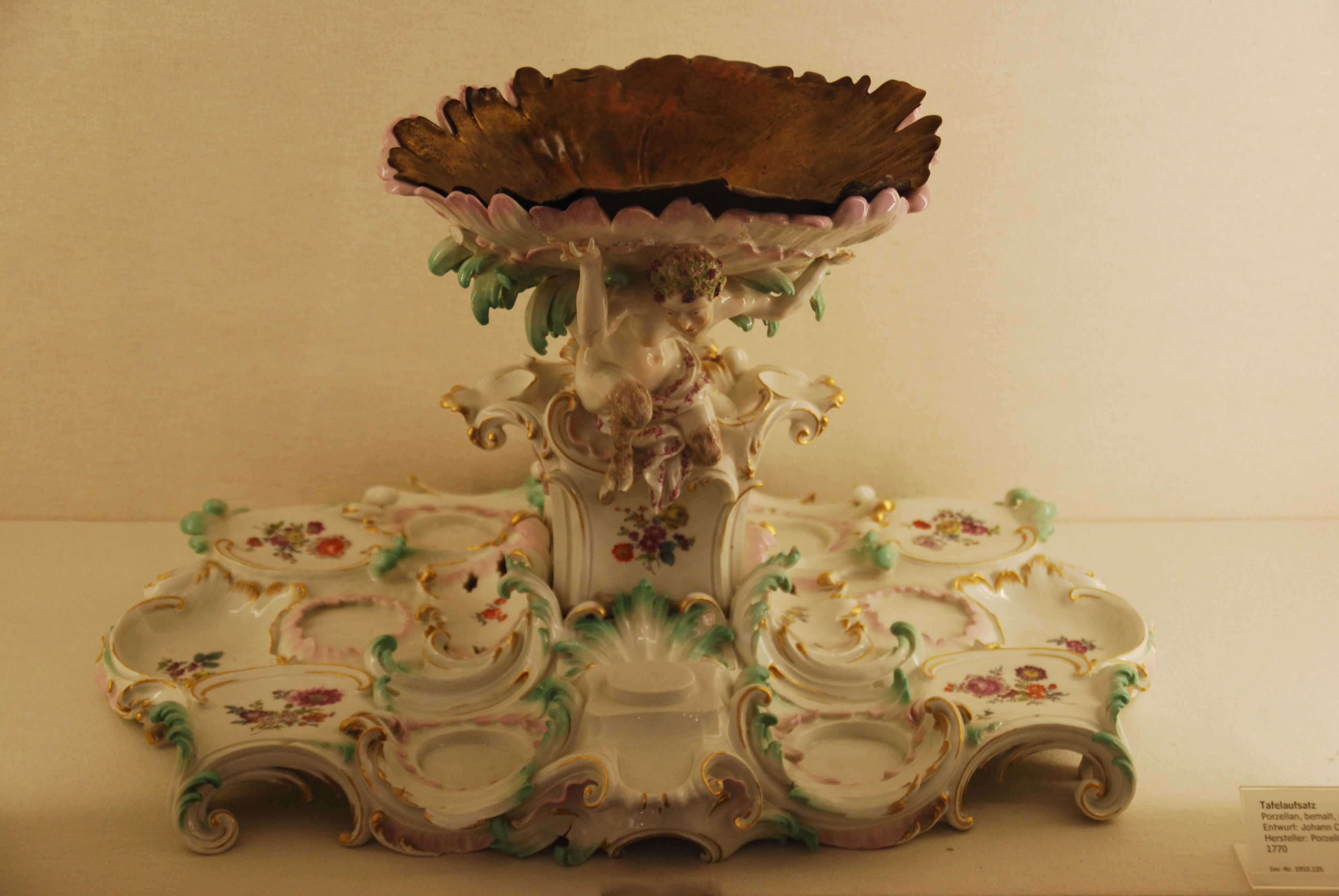 Uploaded Raw material, everybody can work on Names, Categories, Descriptions and so on..